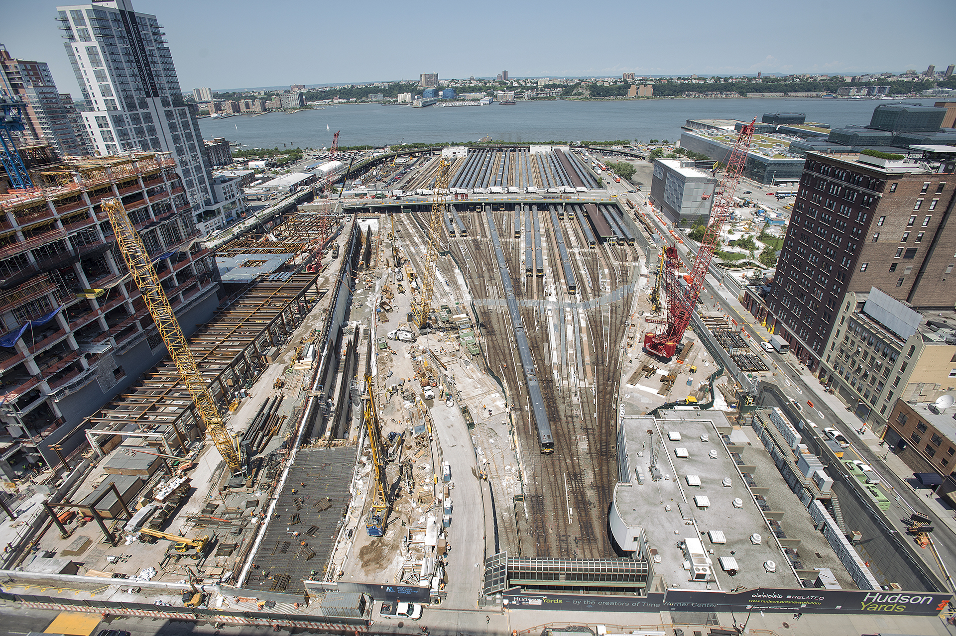 Giant cranes and boring machines work in tight quarters with the Long Island Rail Road’s 24/7 operations at the LIRR west side storage yard to construct the platform that will support the office towers, apartments and shopping center of a new neighborhood being constructed by the Related Companies at 10th Avenue between 30th and 33rd streets on Manhattan’s west side. Simultaneously a concrete casing as route protection for Amtrak’s future trans-Hudson tunnel is being constructed. Photo: Metropolitan Transportation Authority / Patrick Cashin